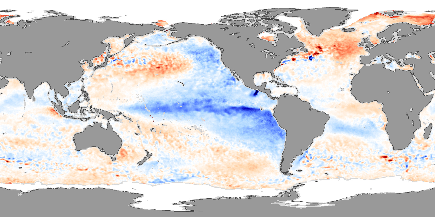 During La Niña, sea surface temperatures in the eastern tropical Pacific are below average, and temperatures in the western tropical Pacific are above average. This pattern is evident in this temperature anomaly image for November 2007. This image shows the temperature for the top millimeter of the ocean’s surface—the skin temperature—for November 2007 compared to the long-term average. A strong band of blue (cool) water appears along the Equator, particularly strong near South America. Orange to red (warm) conditions appear north and south of this strong blue band. The 2007 data were collected by the Advanced Microwave Scanning Radiometer (AMSR-E) flying on NASA’s Aqua satellite. The long-term average is based on data from a series of sensors that flew on NOAA Pathfinder satellites from 1985 to 1997.